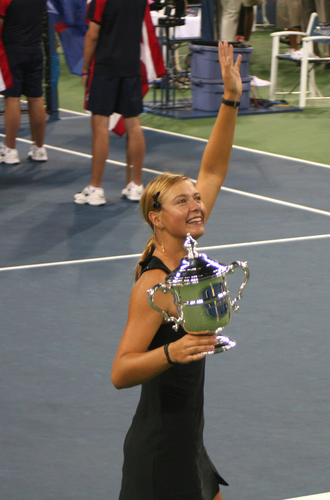 Maria Sharapova just after winning the US Open. September 9, 2006